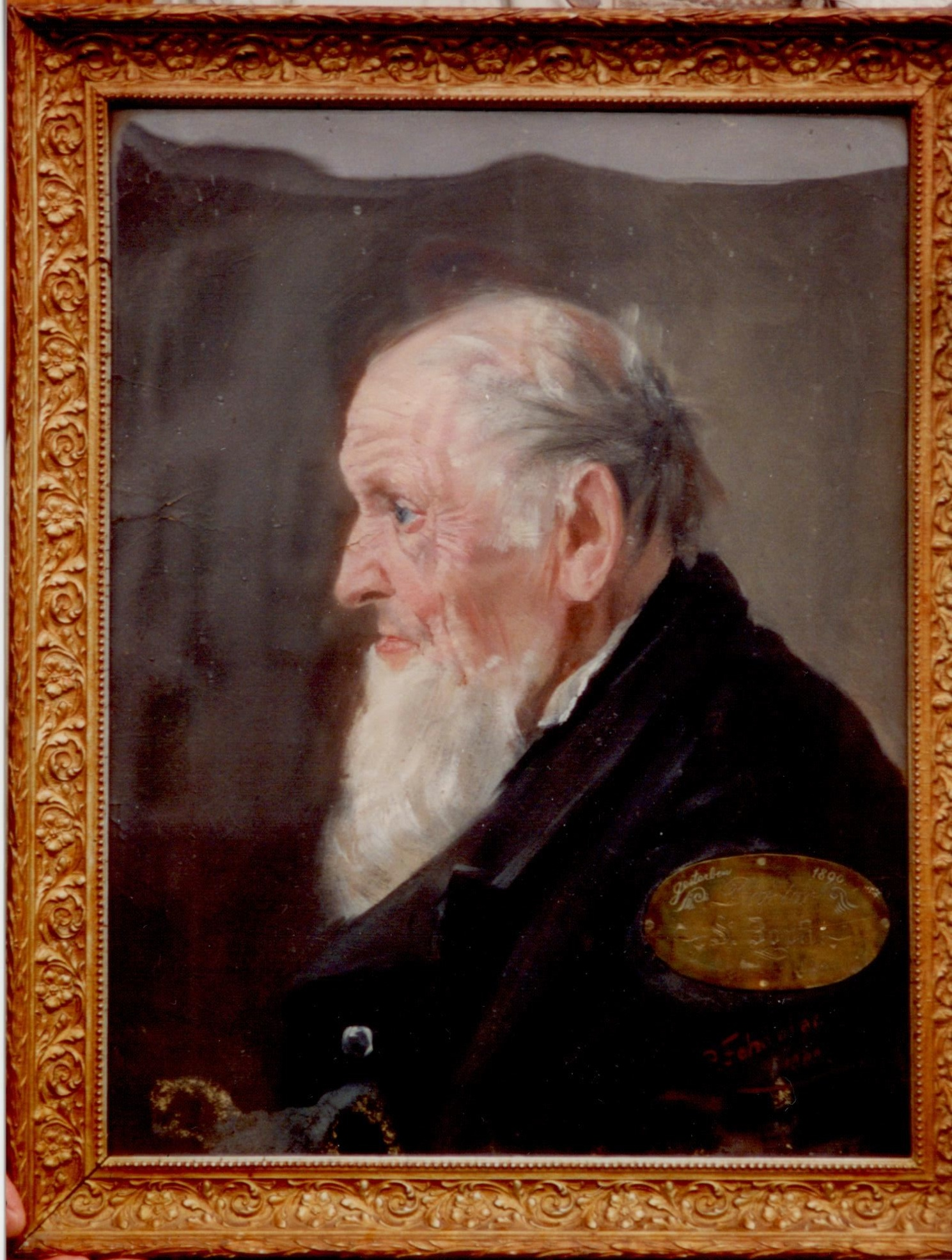 Dr. Samuel Zopfy ((1804–1890), medical doctor, pionier of homoeopathy